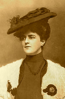 May Gertrude Elliot Forbes-Robertson (1874-1950), wife of Johnston Forbes-Robertson.